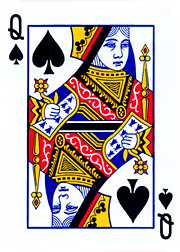 A Playing card: queen of spades , from poker deck, in small PNG format.